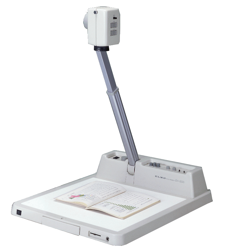 ELMO releases its first document camera/ visualiser EV-308